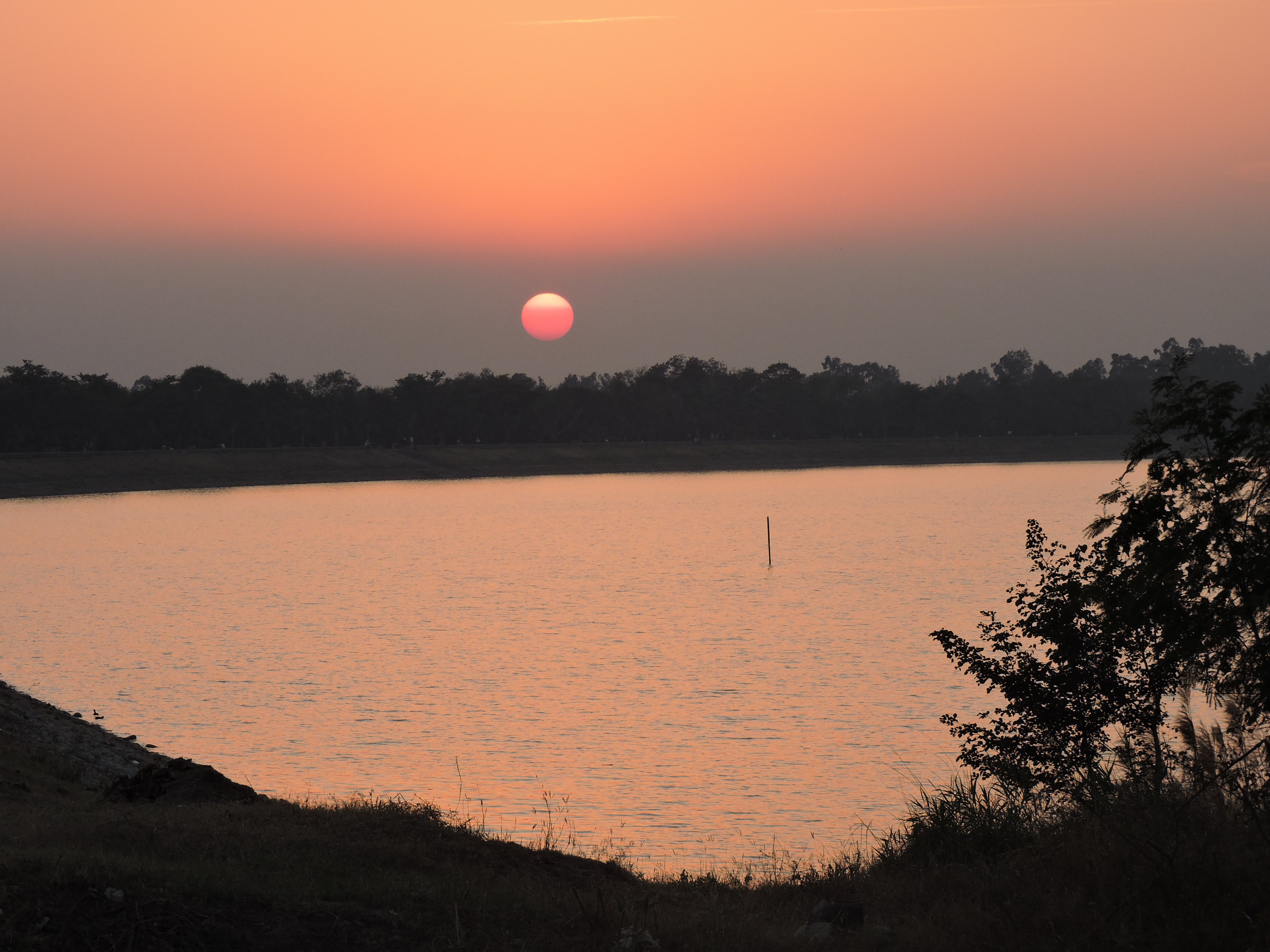 Sunset view of Sukhna Lake, Chandigarh, India